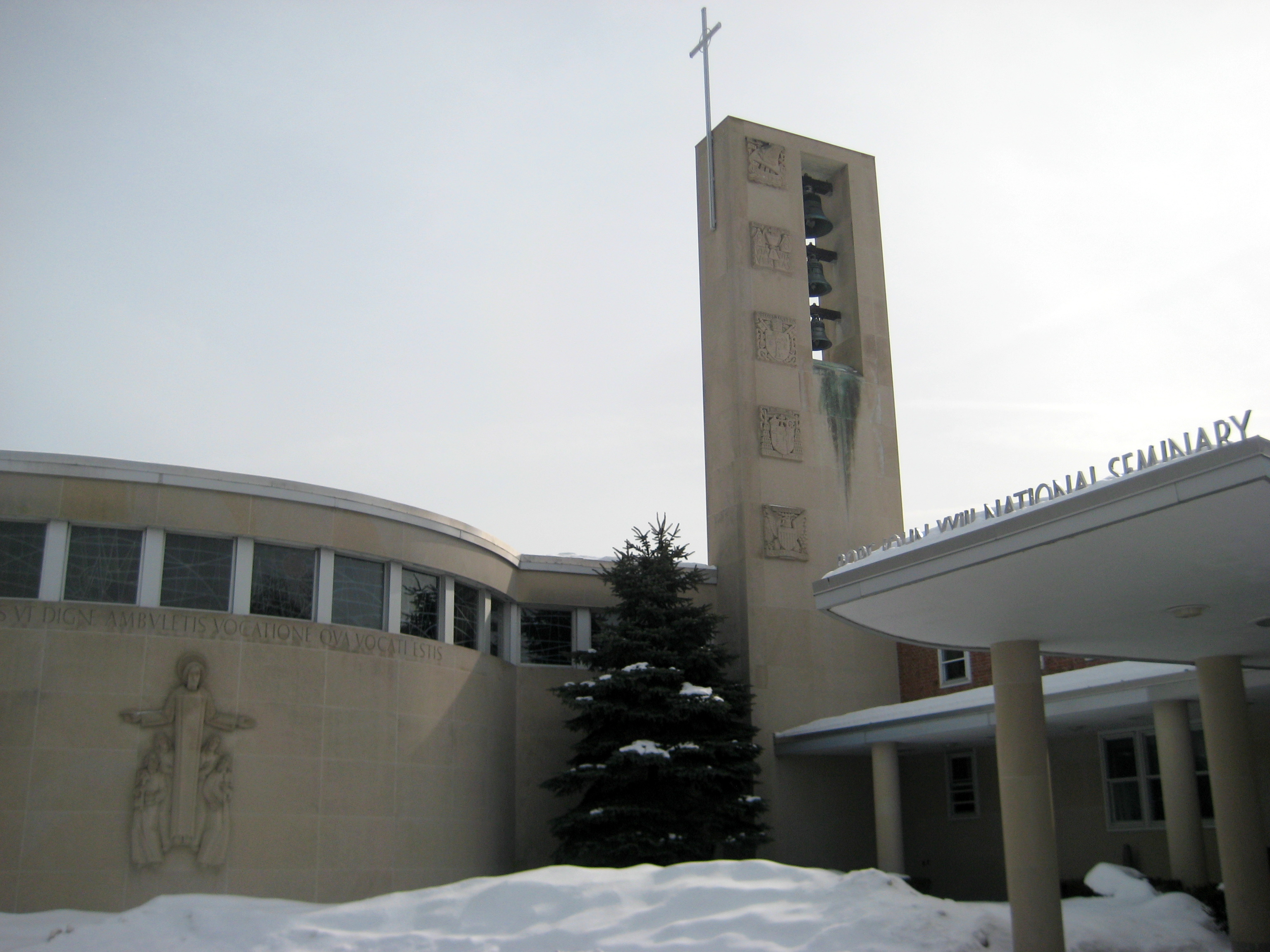 Blessed John XXIII National Seminary in Weston. February 2009 photo by John Stephen Dwyer